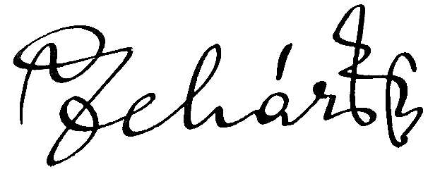 Signature of Franz Lehár, a. 1937